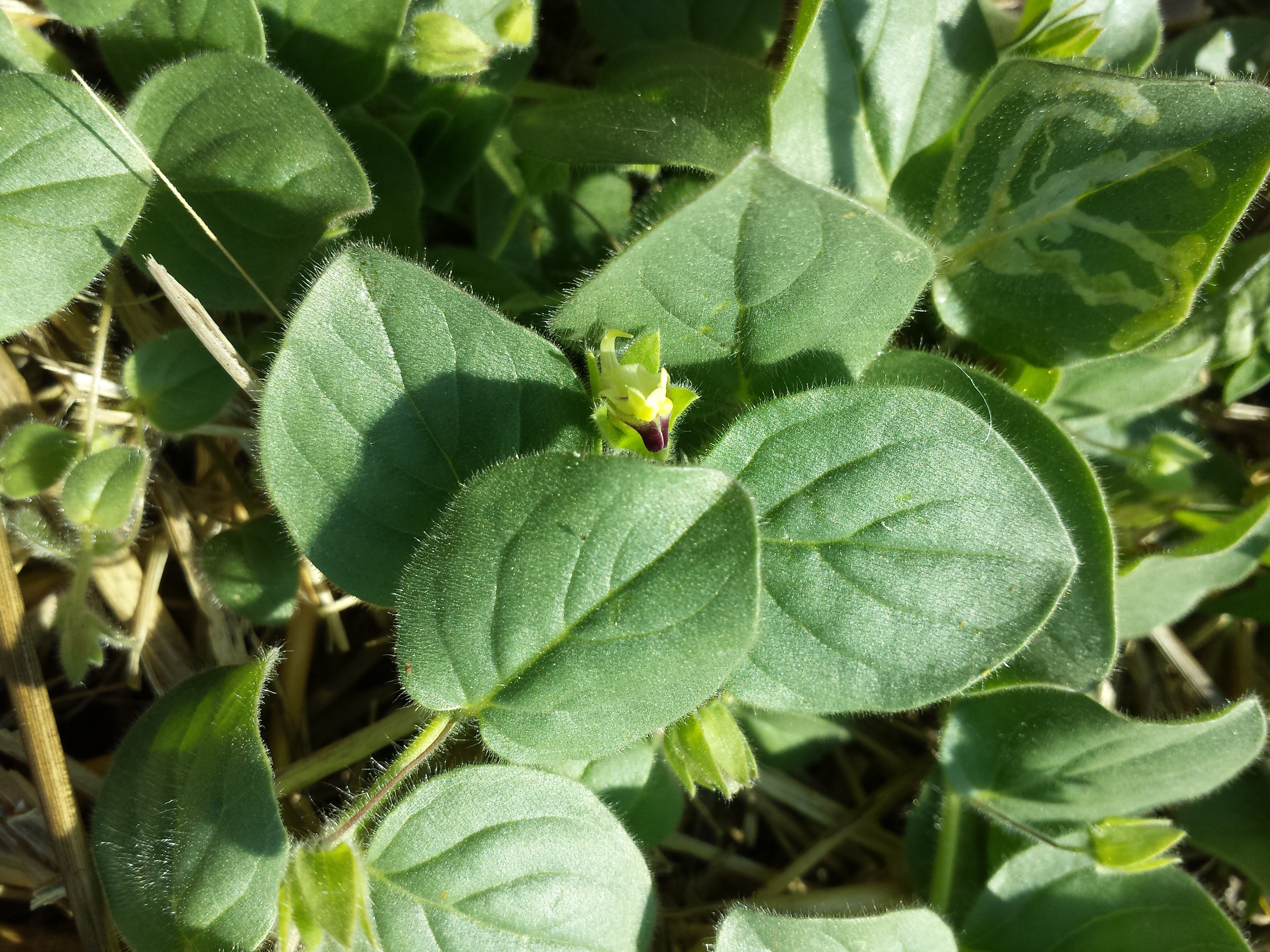 Stipe with leaves and flowers Taxonym: Kickxia spuria ss Fischer et al. EfÖLS 2008 ISBN 978-3-85474-187-9 Location: Steinberg near Niederhollabrunn, district Korneuburg, Lower Austria - ca. 375 m a.s.l. Habitat: field